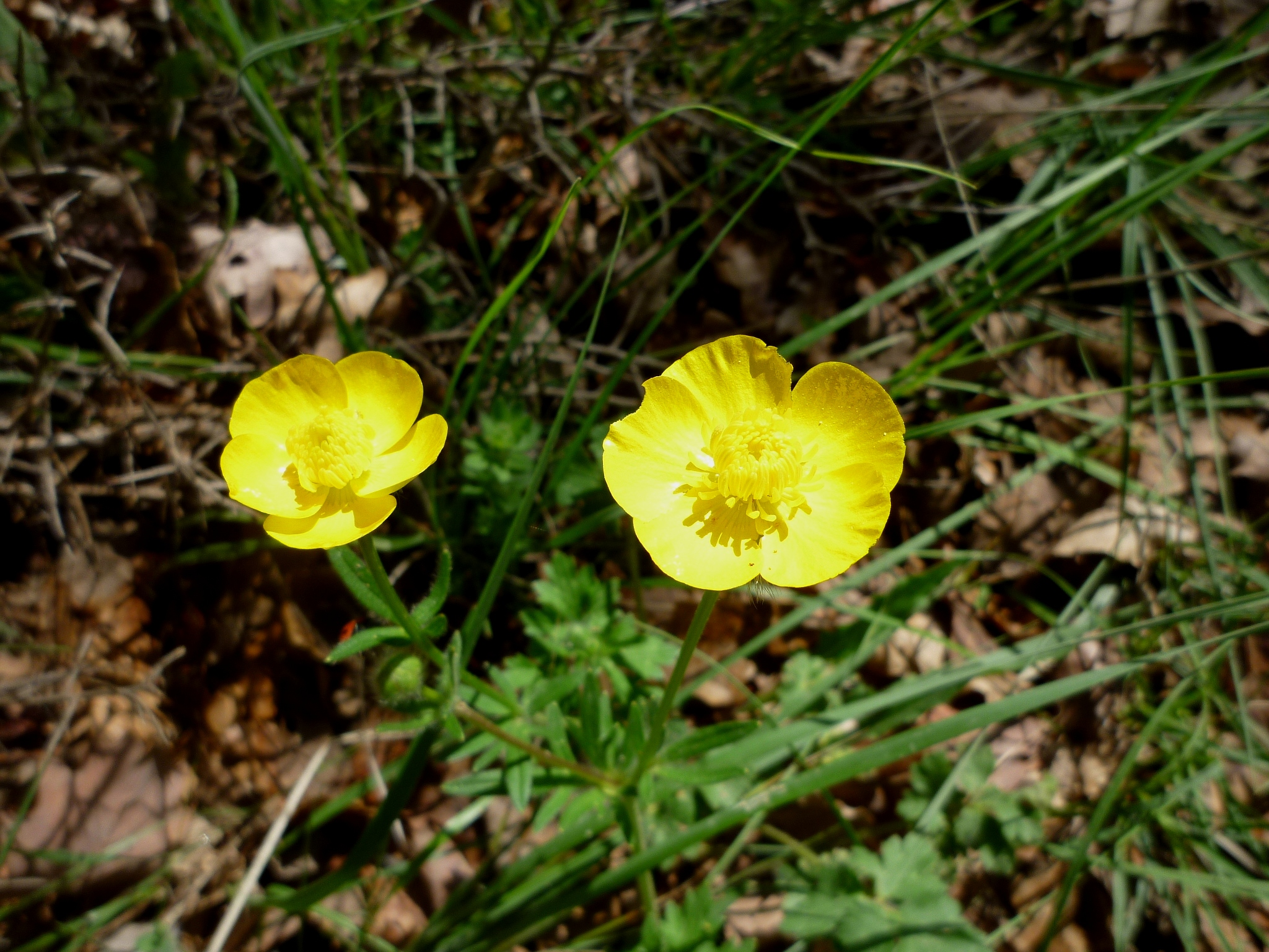 Ranunculus gramineus. In Guixers (Solsonès-Catalunya). To 1.340 m. altitude